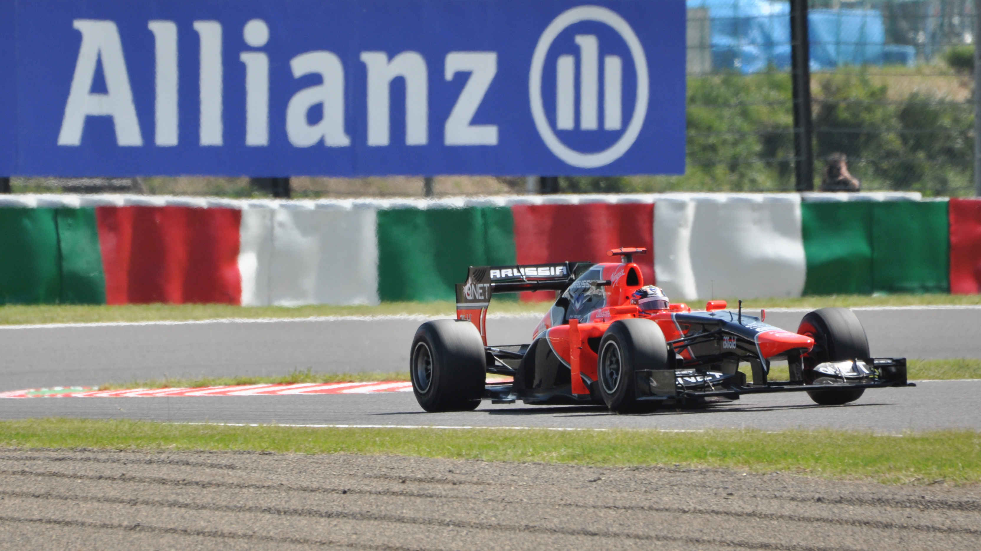 The Marussia is guided through the s-curves by Timo Glock during the first free practice session of the 2012 Formula 1 Japanese Grand Prix at Suzuka Circuit.